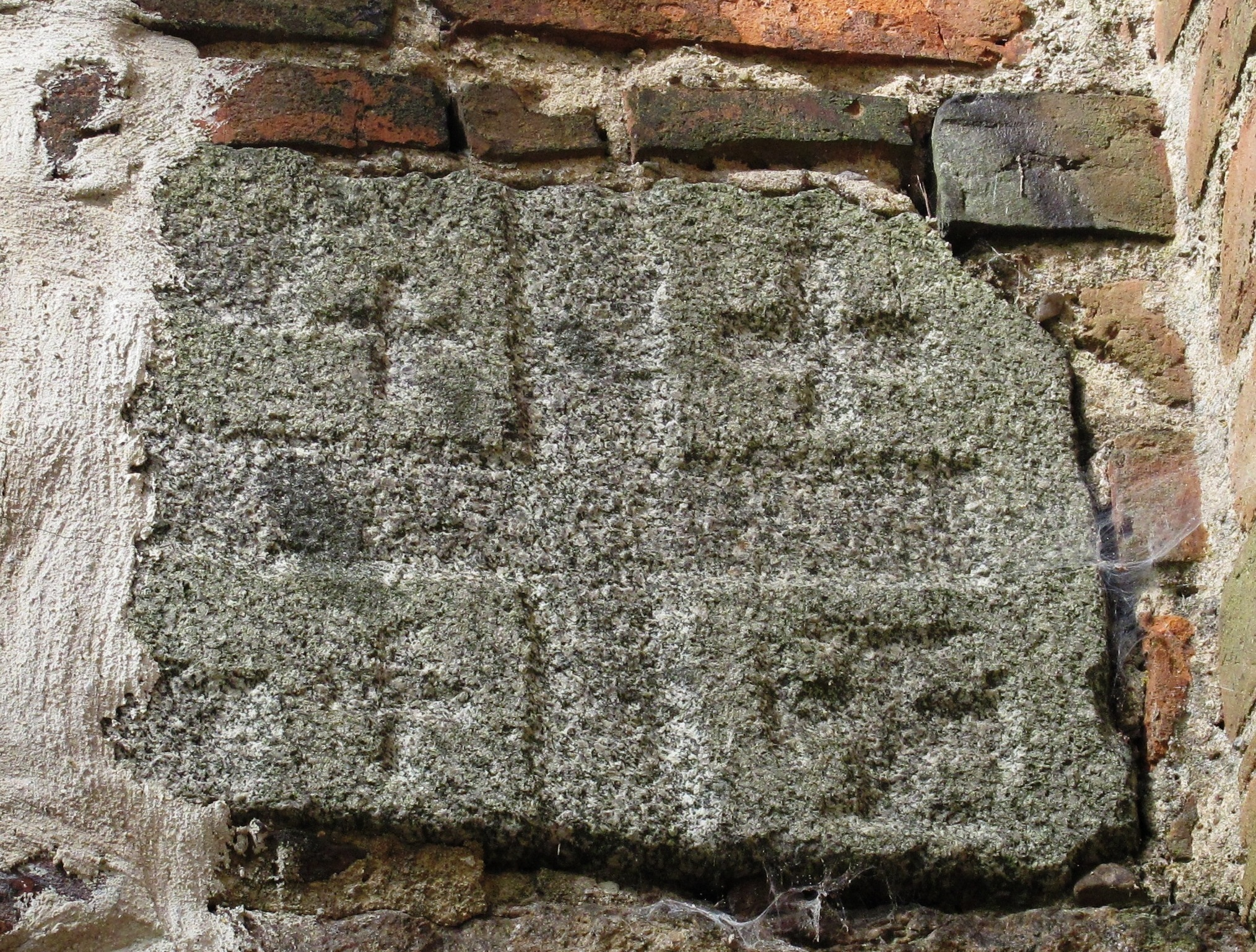 Stone with the Jerusalem cross on the listed village and Fieldstone church in Grunow, a village of the municipality Oberbarnim in the District Märkisch-Oderland, Brandenburg, Germany. The church was built in the 13th-century. It has the unusually high number of seven Schachbrettsteinen (german for: chessboard stones) and an in this region unique stone with the Jerusalem cross. Schachbrettsteine are fieldstones with a checkerboard pattern, which are sporadic attached to the outer walls of medieval fieldstone churches, especially in the South Baltic Sea area. Their significance/function is unclear.